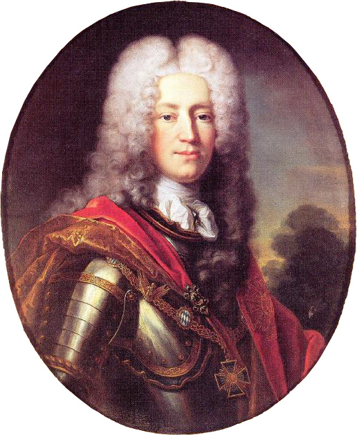 Ferdinand Freiherr von Plettenberg-Nordkirchen